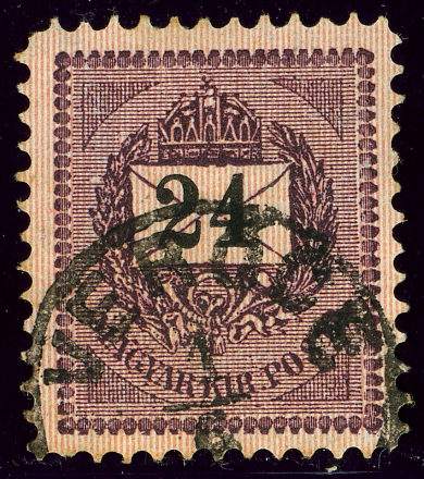 Kingdom of Hungary 24 kr issue 1888 stamp, cancelled VERÖCE, Croatia-Slavonia.